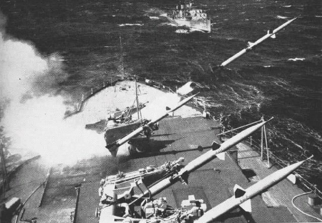 Launch of an RIM-2 Terrier surface-to-air missile from the U.S. naval auxiliary USS Mississippi (AG-128) in 1955. The former battleship served as a test platform from 1946 to 1956.